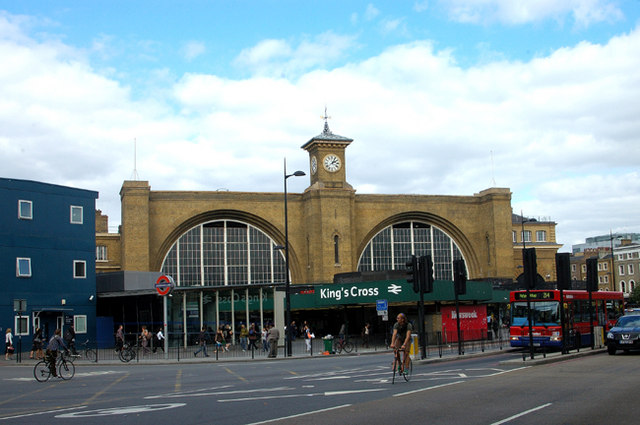 Kings Cross at the junction of Euston Rd & Pancras Rd